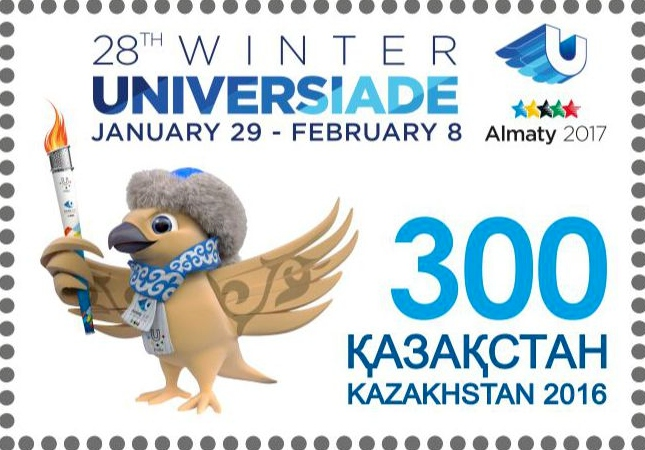 1021. Sport. The 28th World Winter Universiade in 2017 in Almaty